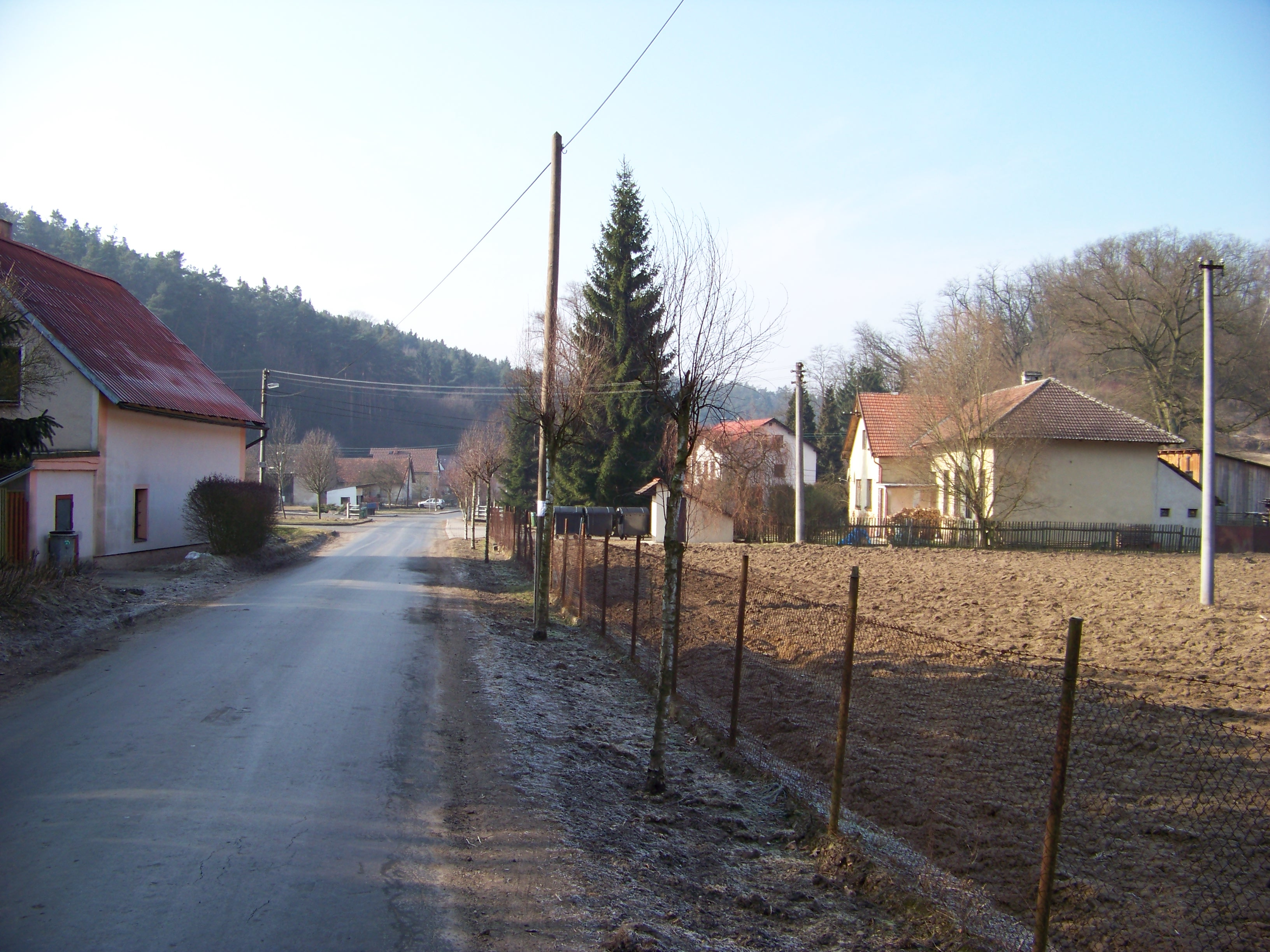 Dolní Zimoř, Mělník District, Central Bohemian Region, the Czech Republic. - OpenStreetMap (Info)